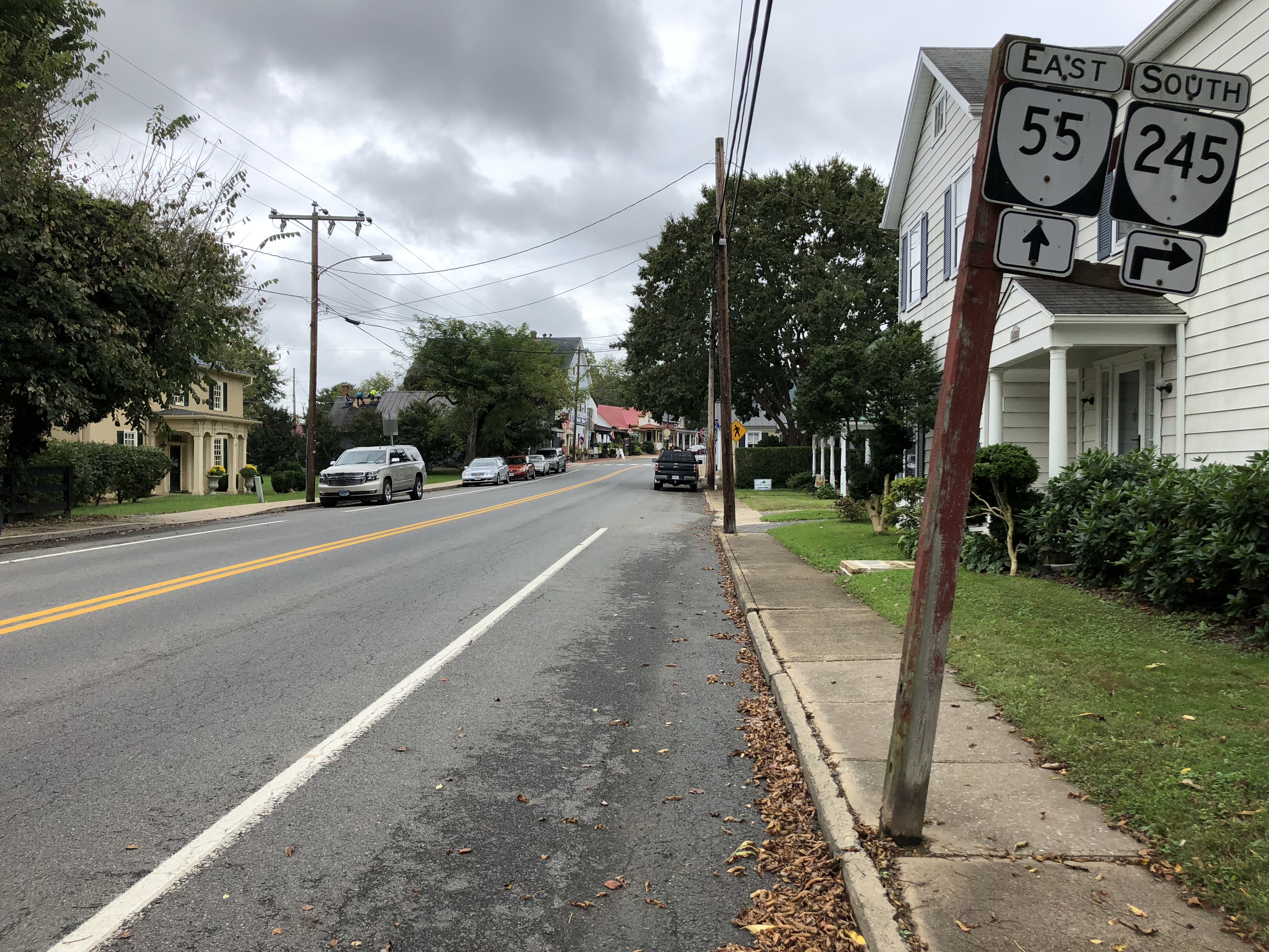 View east along Virginia State Route 55 (Main Street) between Stuart Street and Bragg Street in The Plains, Fauquier County, Virginia